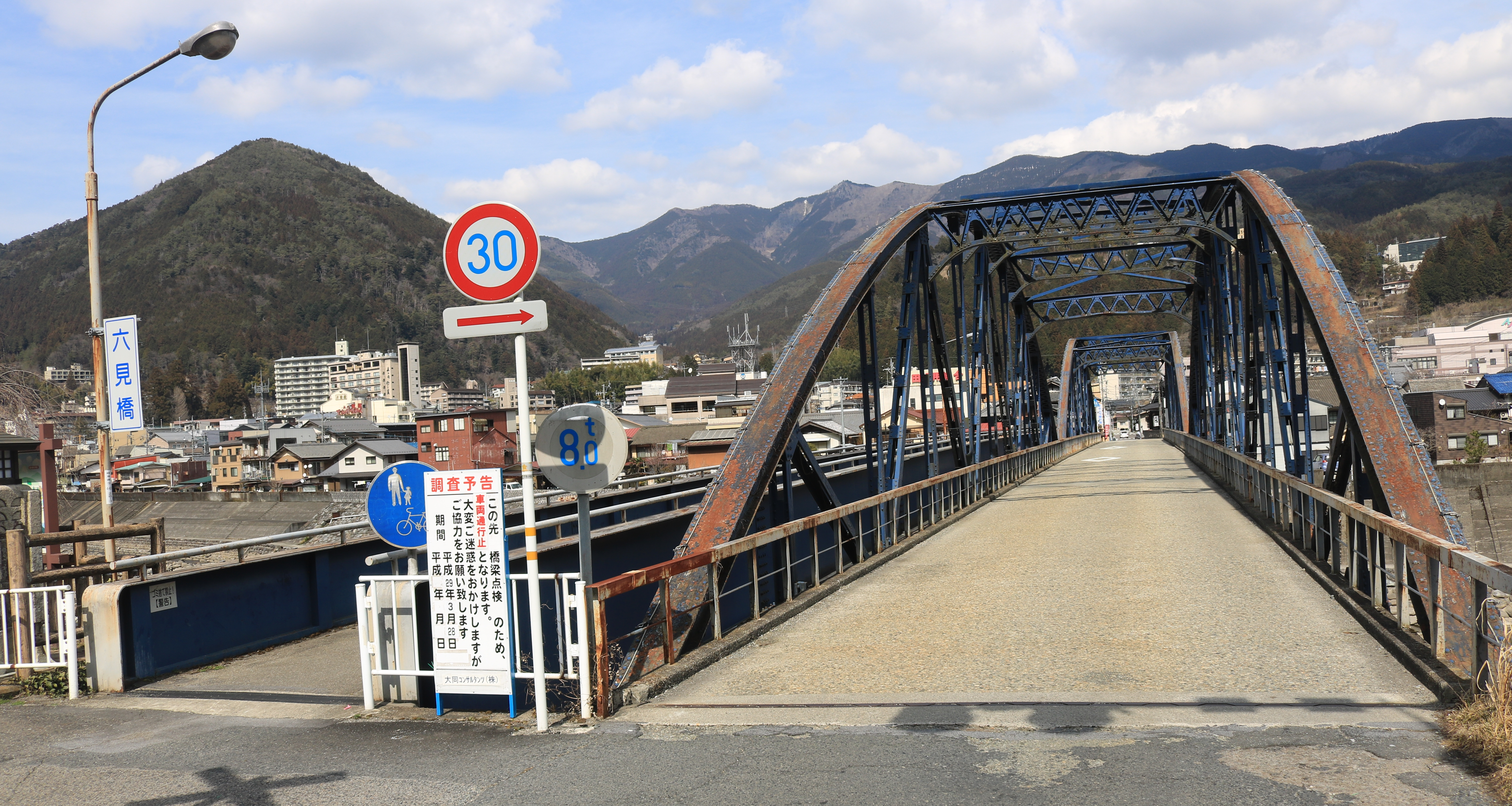 Mutsumi Bridge (Mutsumi-bashi), a bridge of Gifu Prefectural Road Route 440 over Hida River in Gero, Gifu prefecture, Japan.